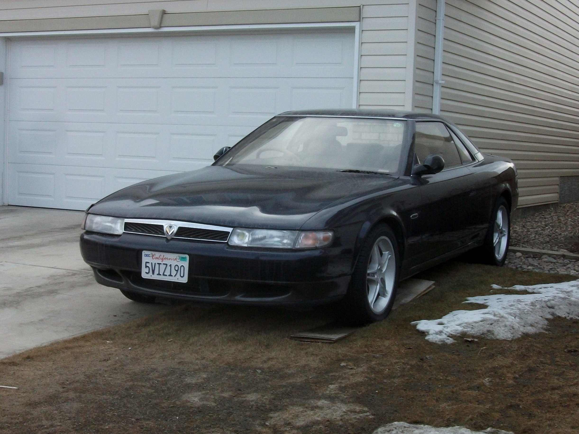 Imported from Japan Eunos Cosmo - these came with a twin turbo 13B-RE two rotor or a 20B-REW three rotor engine. There where only sold in Japan and only with an automatic transmission. I love the styling, especially the interior. Not sure why there is a California plate on the front.